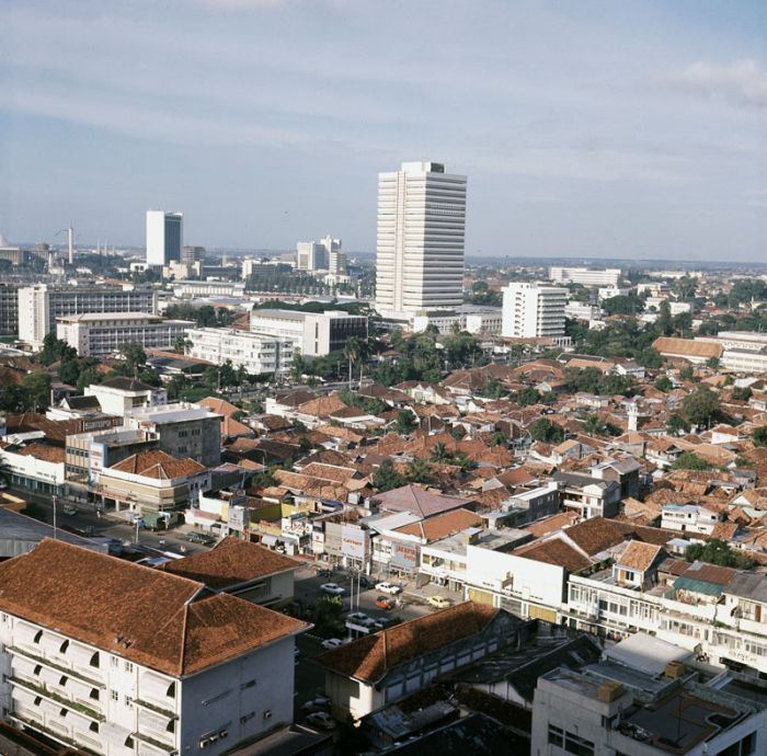 View over Jakarta Pusat